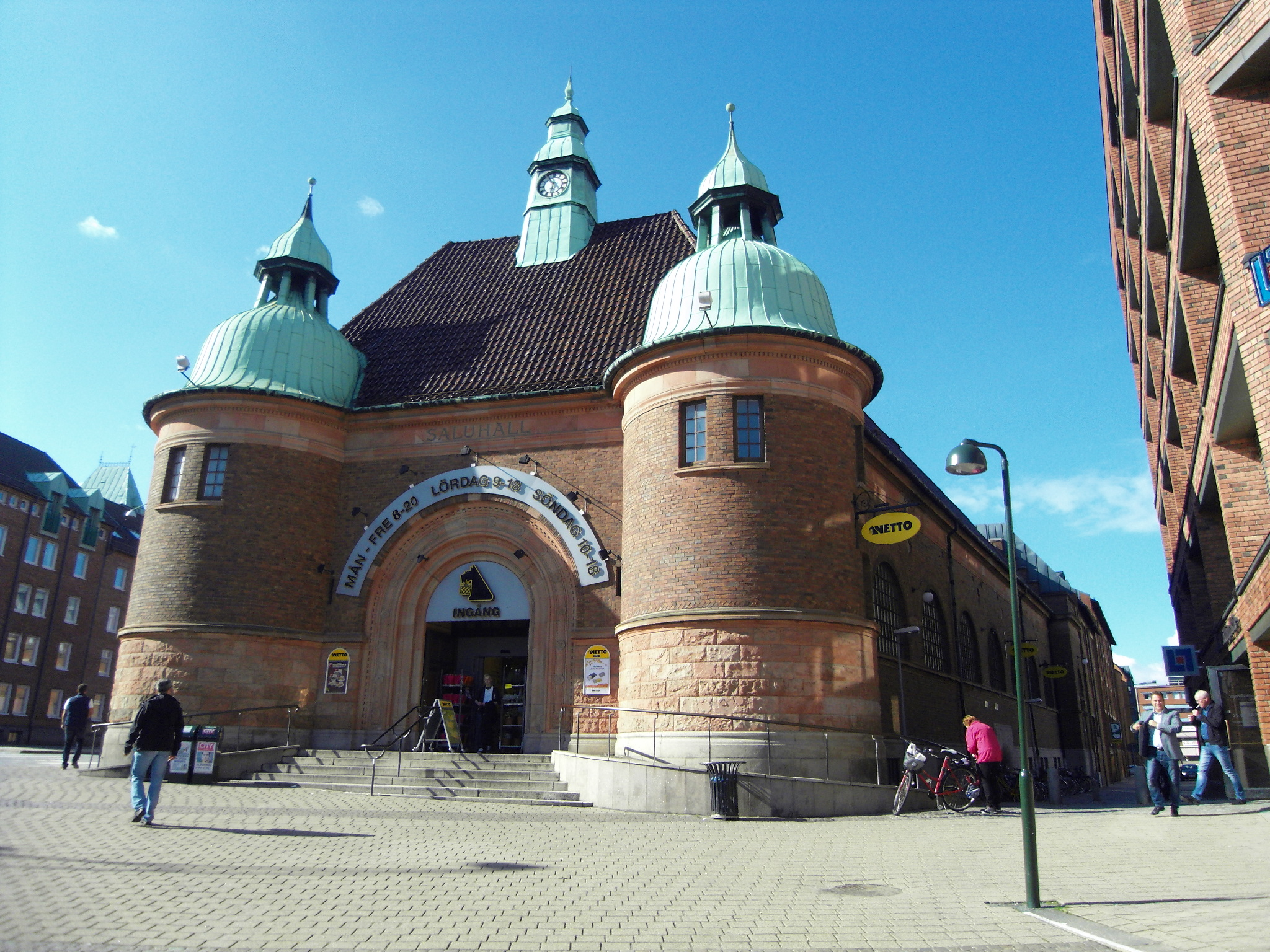 An old market hall in the neighbourhood the Calm (Swedish Lugnet) in city of Malmo, nowadays housing a Netto store. Above the entrance is an inscription saying saluhall, Swedish for "market hall". The picture is taken 19 September 2013.